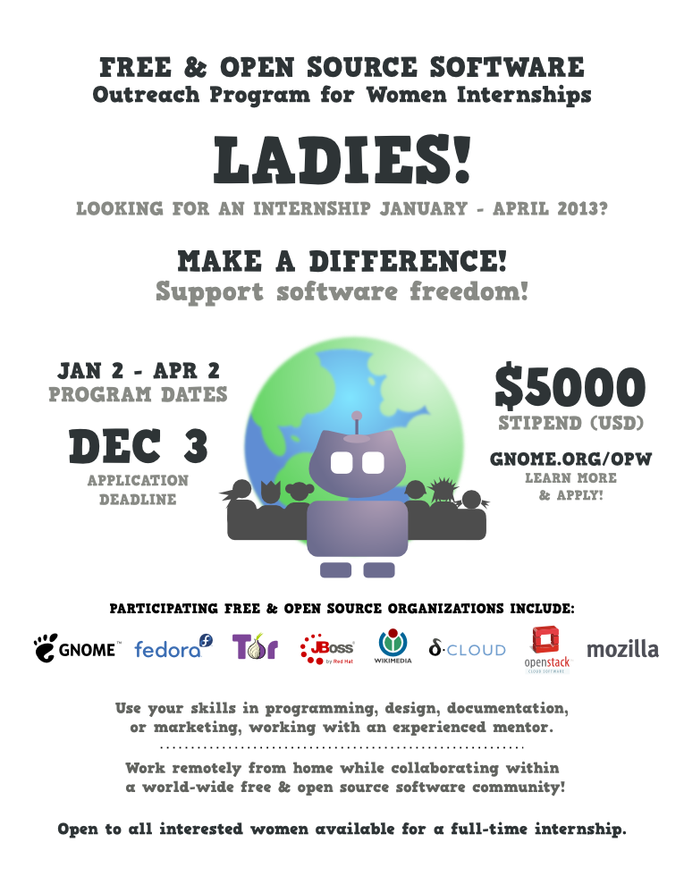 This is a flyer used to promote Free and Open Source Software remote internships for women taking place from January 2 to April 2, 2013.